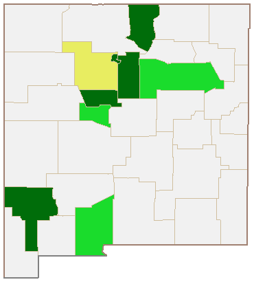 English (en): Map of same-sex marriage status in counties of New Mexico Counties issuing licenses to same-sex couples under court order (Bernalillo County, Grant County, Los Alamos County, Santa Fe County, and Taos County) Counties issuing licenses to same-sex couples on their clerks' own initiative (Doña Ana County, San Miguel County and Valencia County) Counties planning to issue licenses to same-sex couples under court order (N/A) Counties which formerly issued licenses to same-sex couples, but no longer does so (Sandoval County) Counties which have not issued same-sex marriage licenses despite court order (N/A) Counties which have not issued licenses to same-sex couples or been subject to court order (all others)